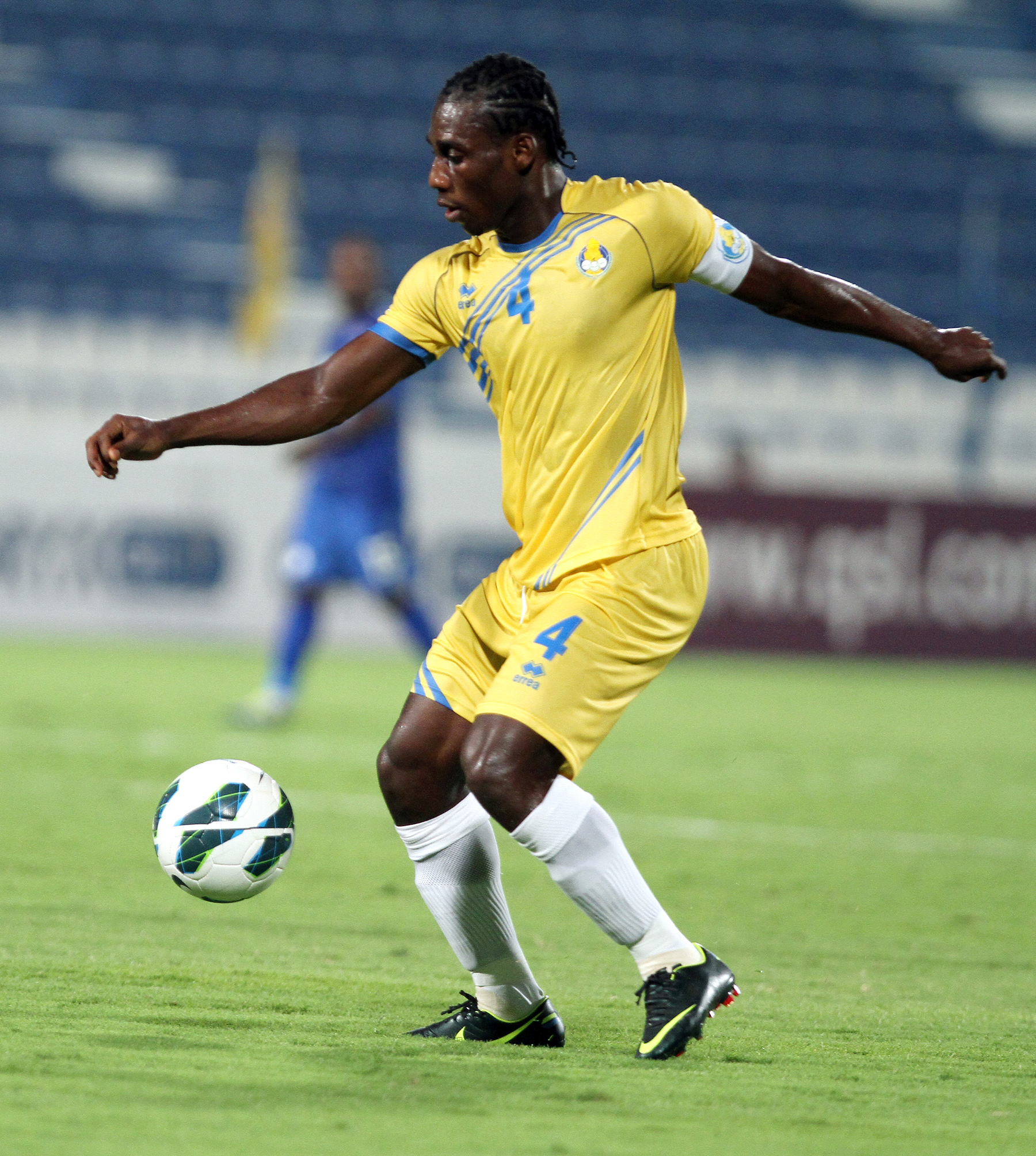 Al Gharafa's Lawrence Quaye in action during the Qatar Stars League. Picture by Vinod Divakaran